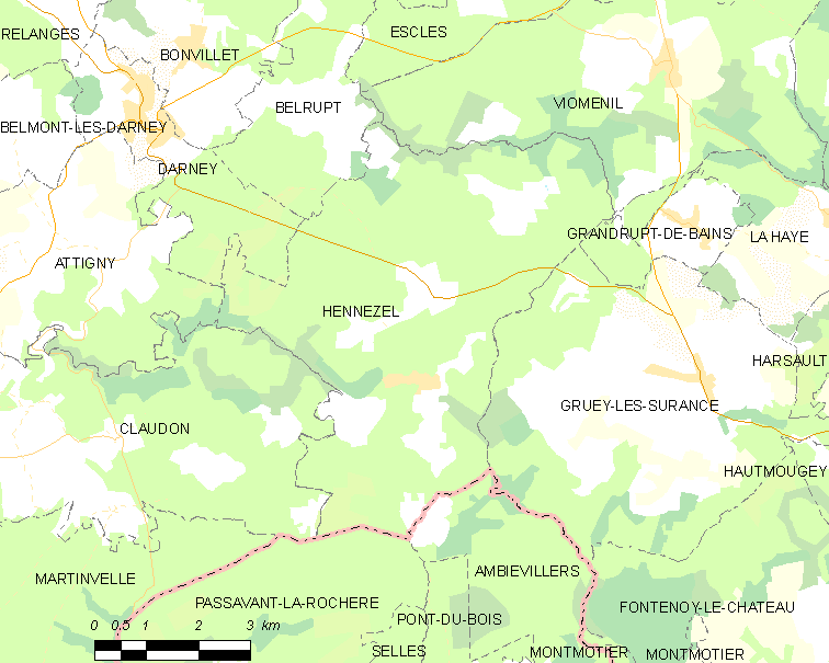 Map of French municipality Hennezel